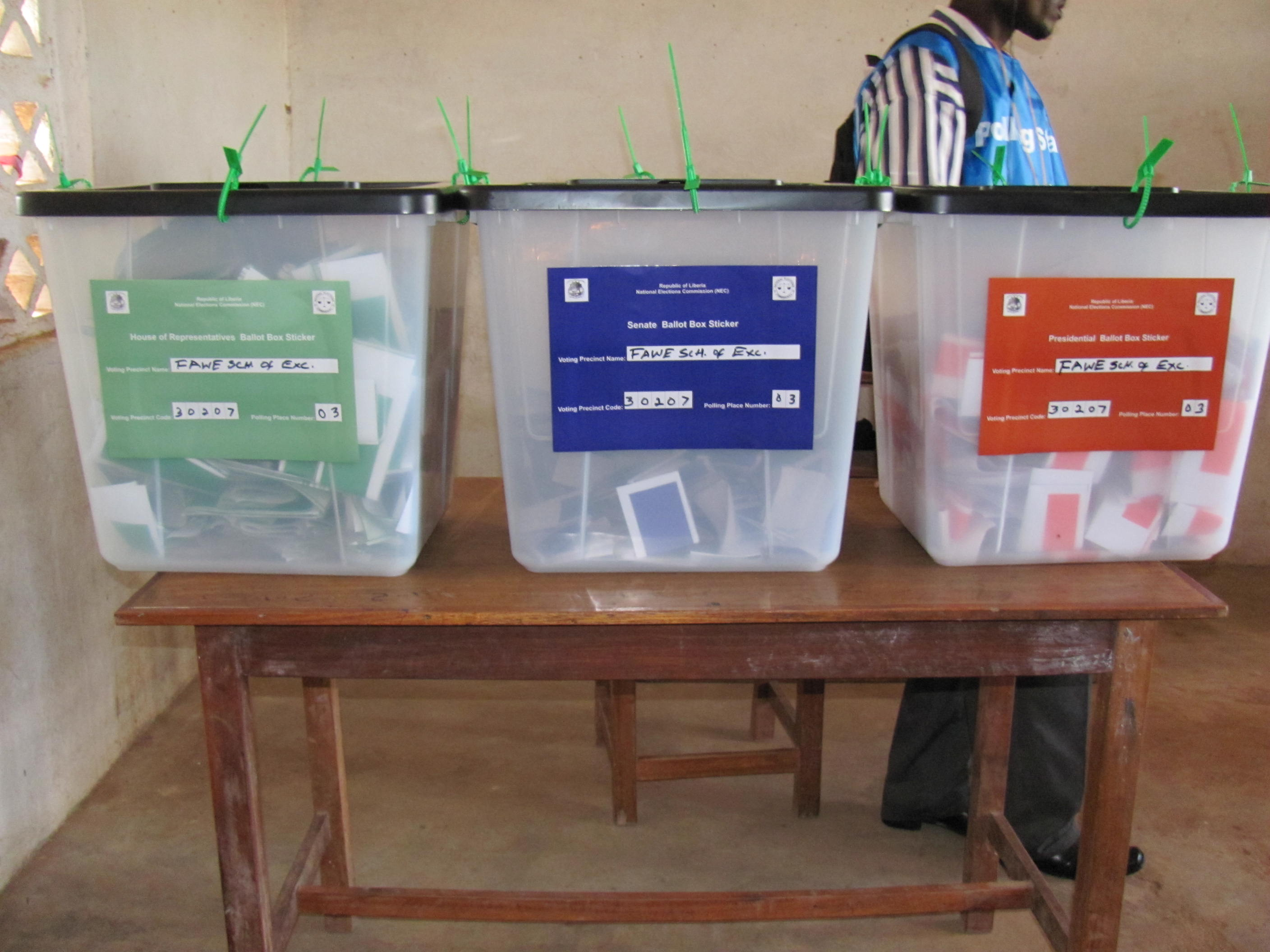 The voice of people 1st round Ballot boxes and ballots for Presidential, Senatorial and House of Representatives Elections, Fawe Elementary School Voting Precinct; Monrovia, Liberia; 11 October 2011 Credit: Xav C. Hagen, Centre for Humanitarian Dialogue